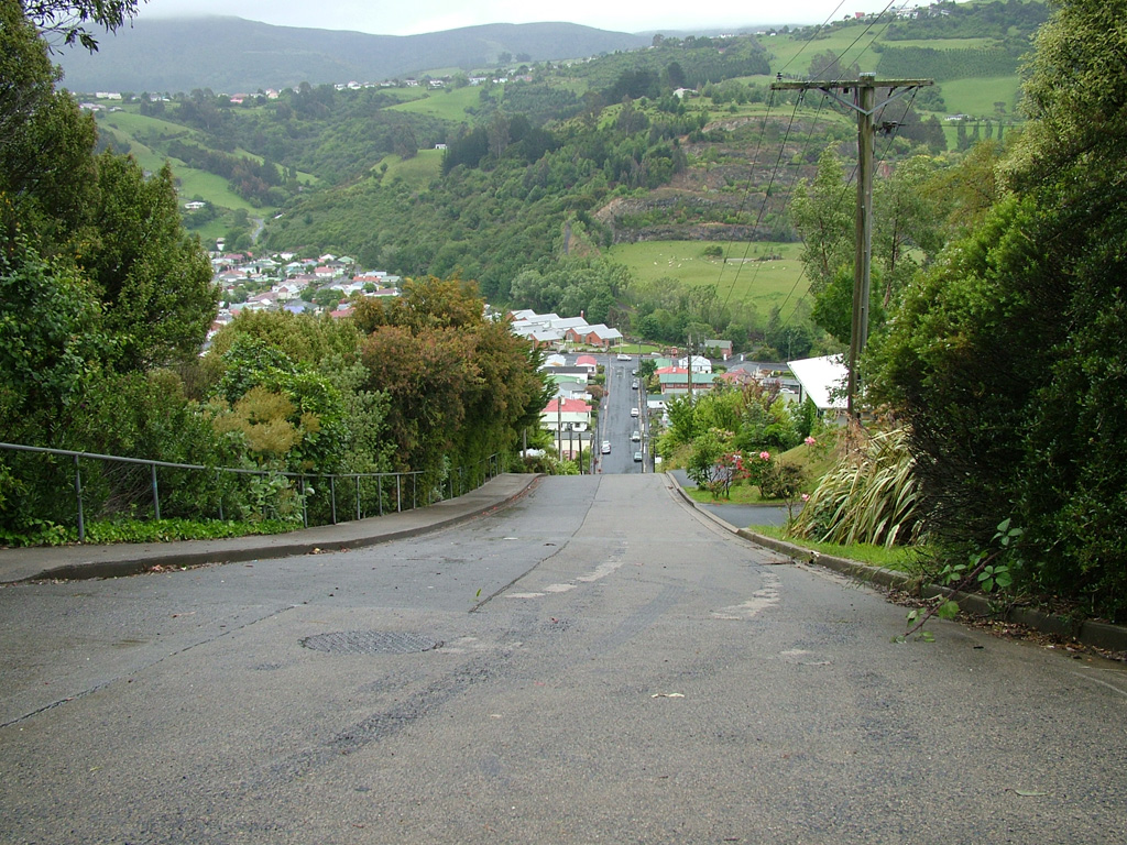 A photo taken from the top of Baldwin Street. Dunedin, New Zealand.